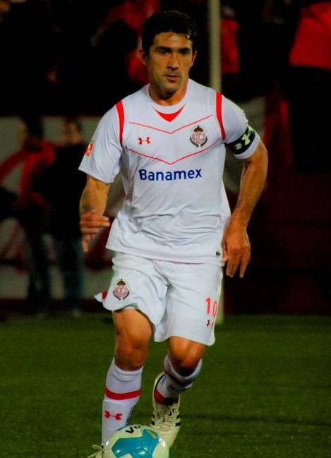 Toluca player Antônio Naelson